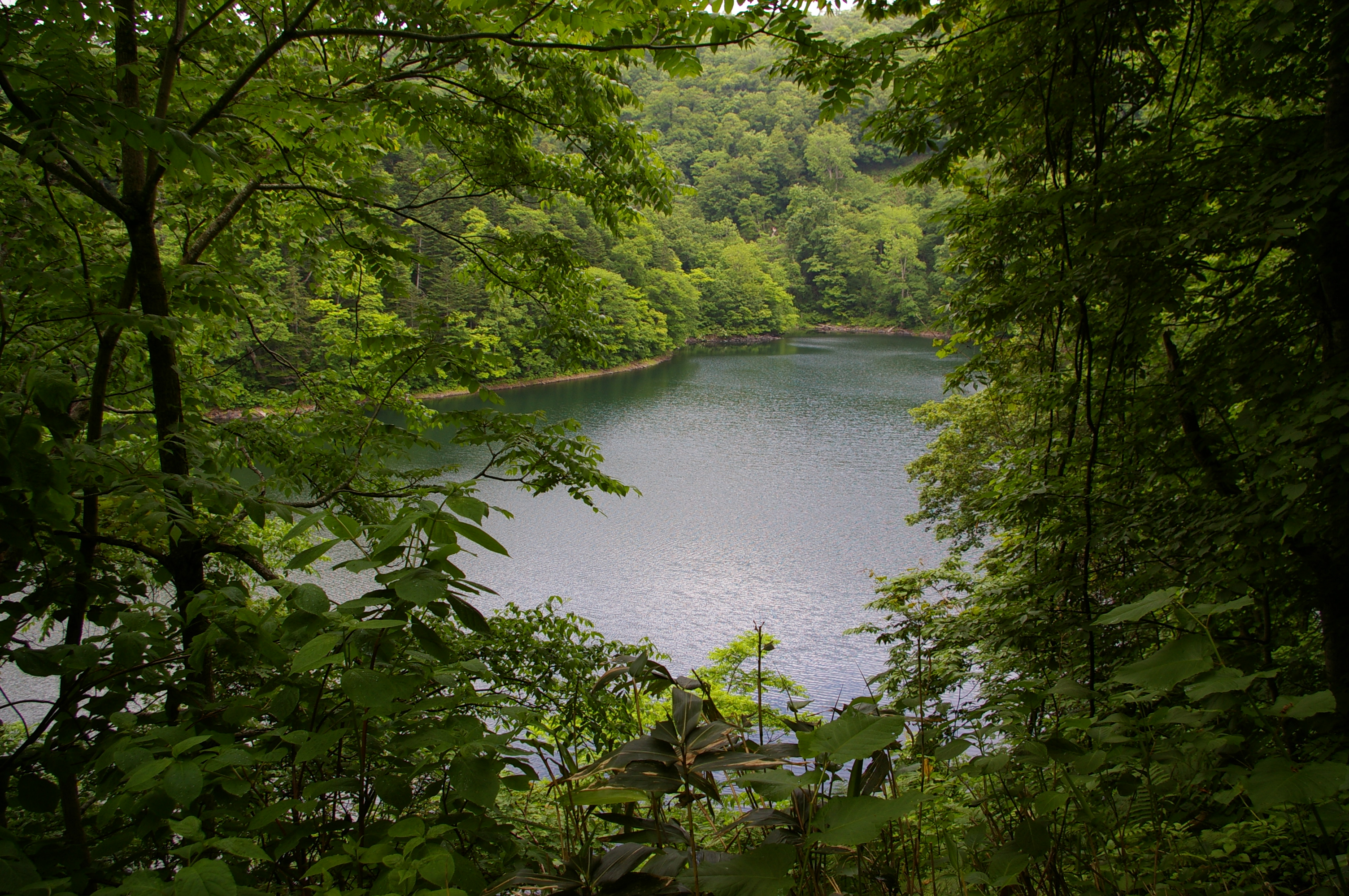 Hangetsuko-Lake, at the foot of Mount Yotei